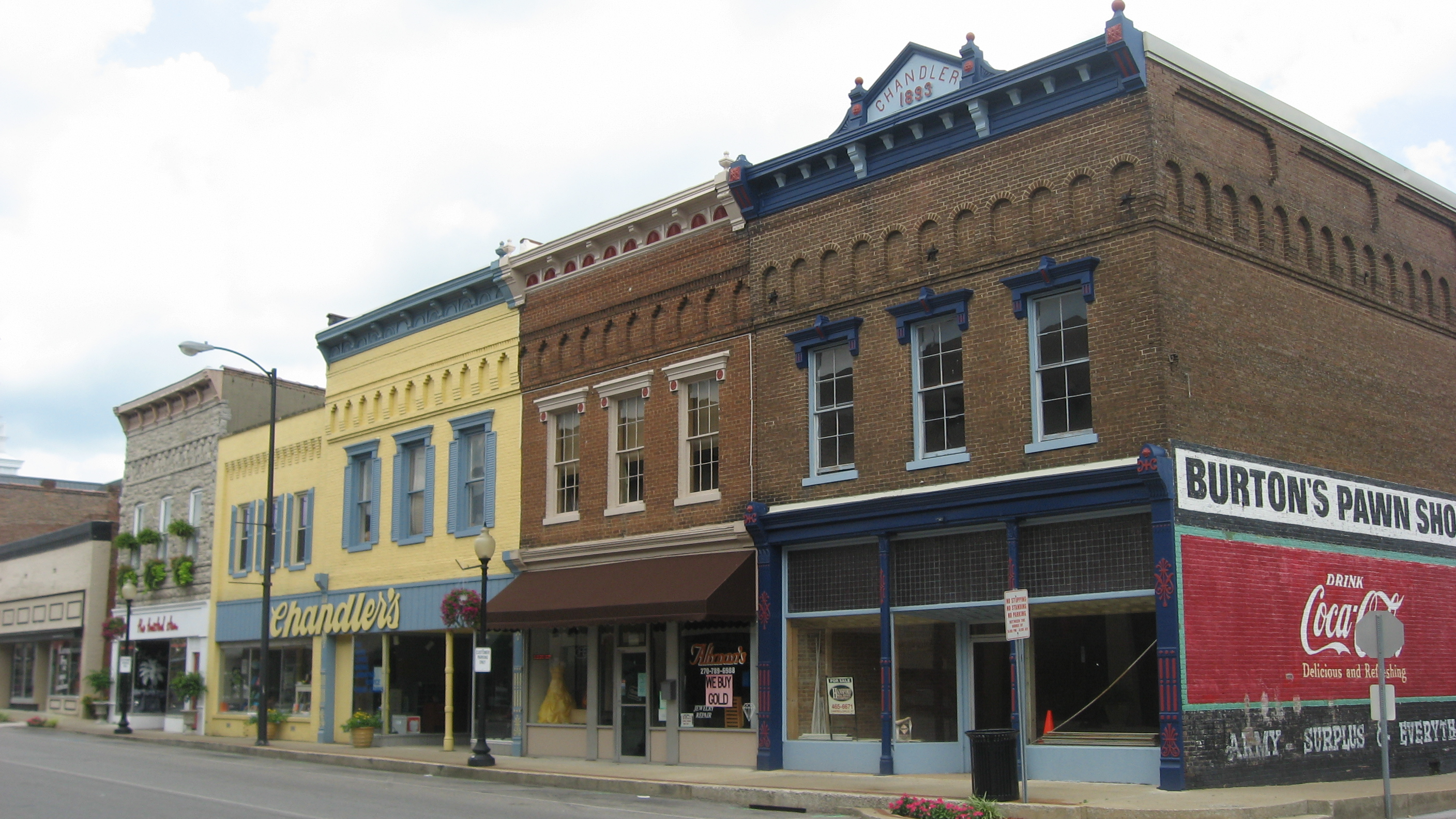 Buildings on the southern side of the 200 block of E. Main Street in Campbellsville, Kentucky, United States. This block is part of the Campbellsville Historic Commercial District, a historic district that is listed on the National Register of Historic Places.